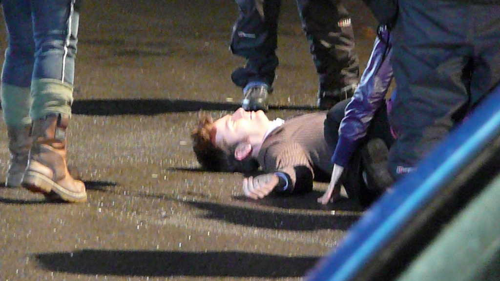 13th March 2008, filming Dr Who in Penarth, David Tennant, Billie Piper, Catherine Tate and John Barrowman were all there.